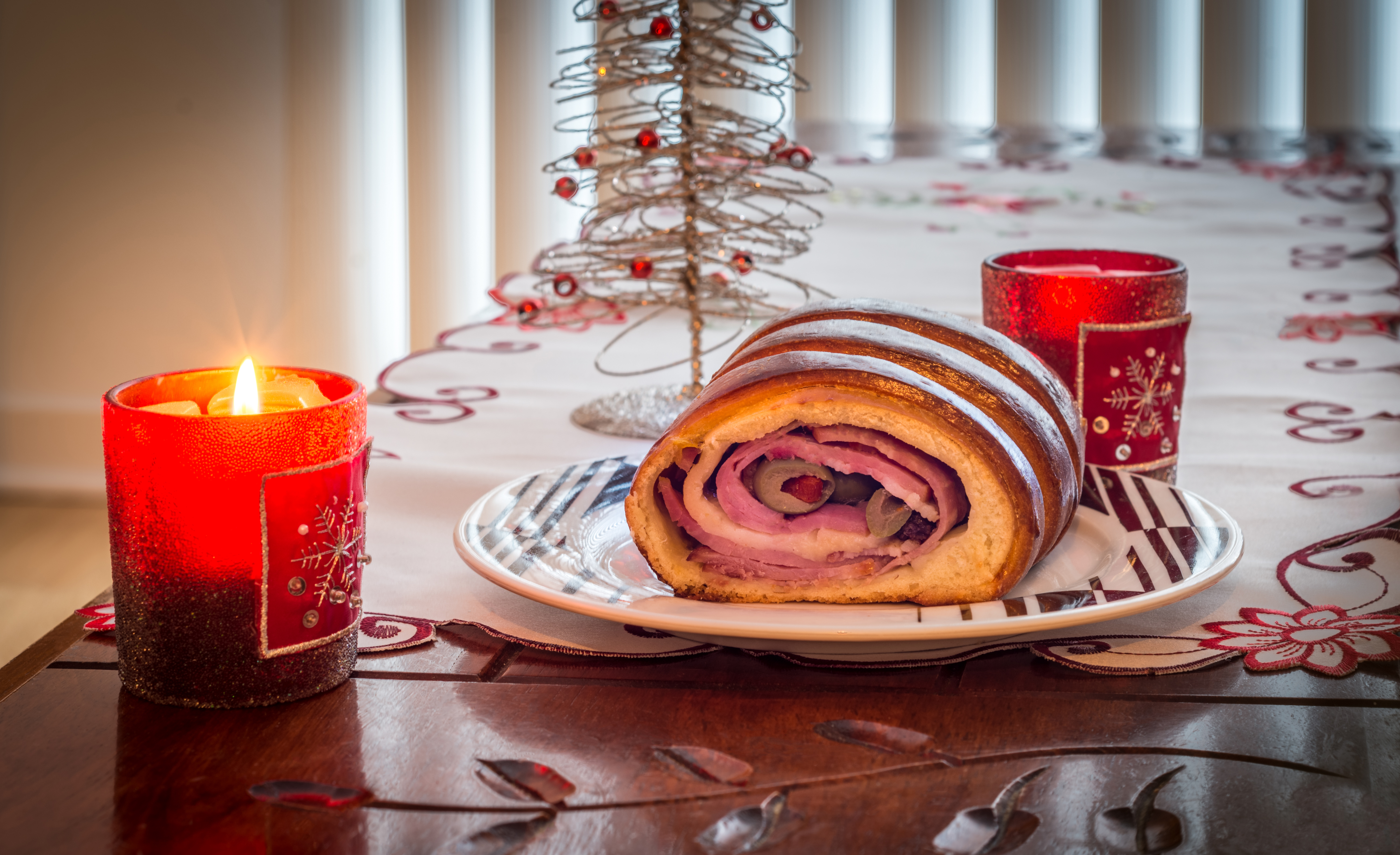 Pan de jamon, Venezuelan food